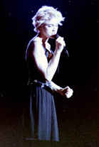 Wembley Stadium Londen Engeland juli '87